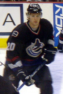 Vancouver Canucks forward Ryan Kesler in 2005.